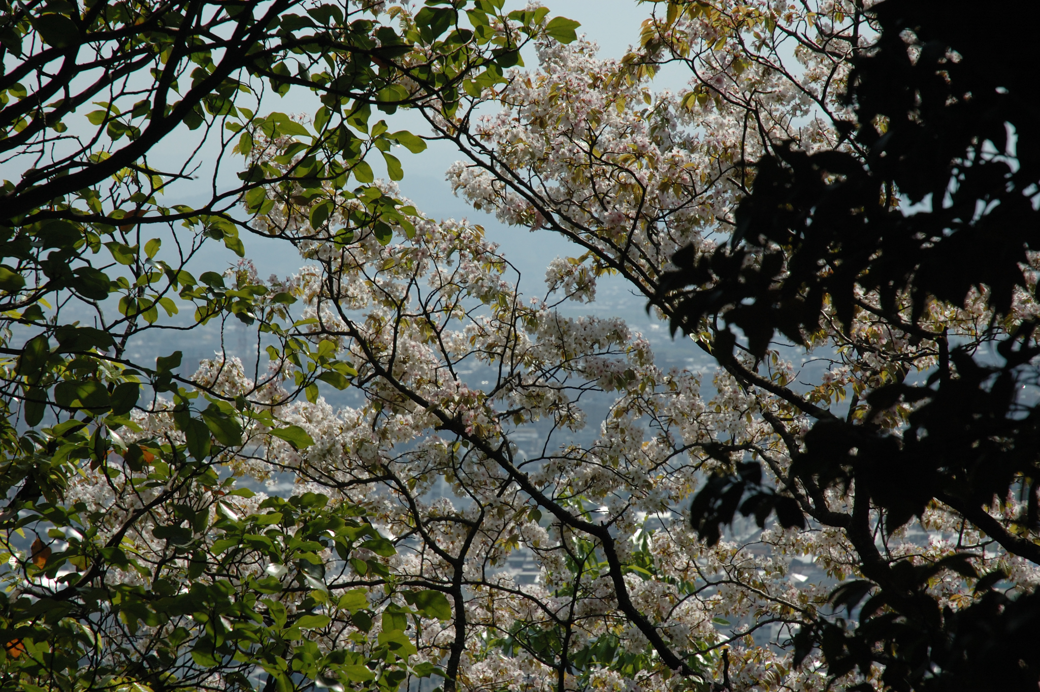 yamazakura(cherry blossom) at Mt. Kyusho in Tottori castle